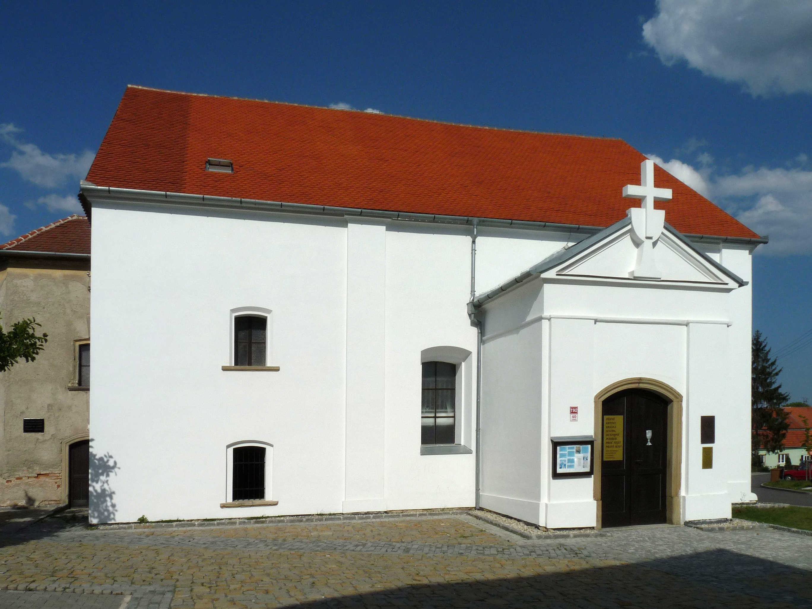 Former synagogue in the town of Rousínov, Vyškov District, Czech Republic. Česky: Bývalá synagoga ve městě Rousínov, okres Vyškov, Jihomoravský kraj.